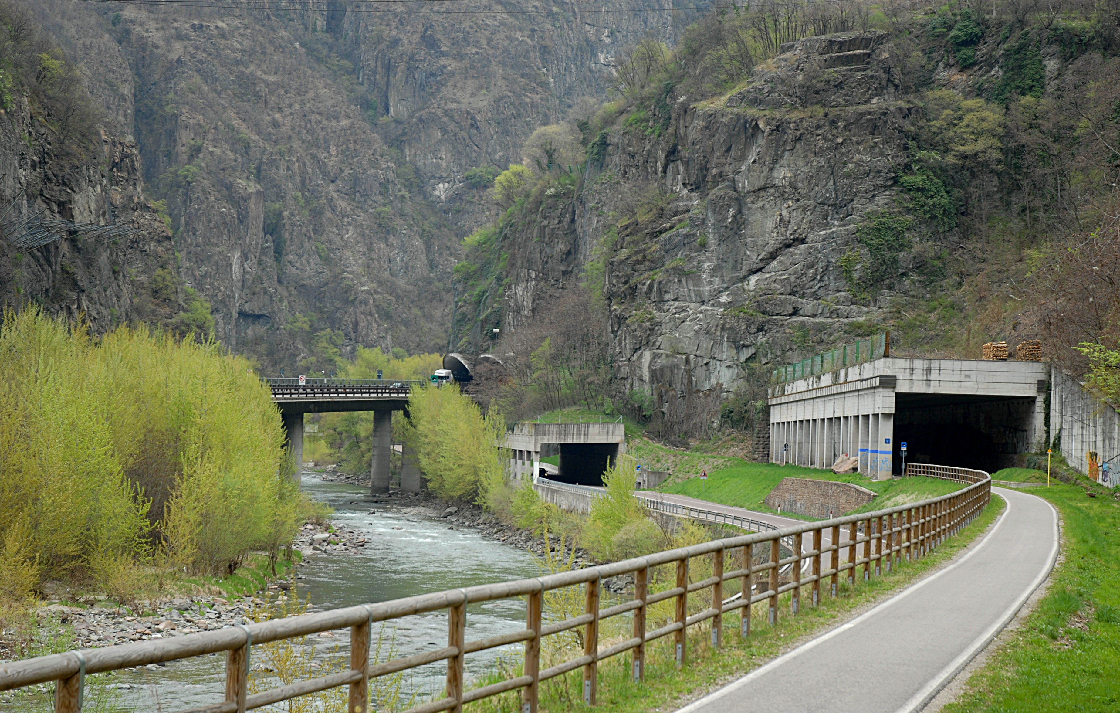 In the Eisack Valley between Bolzano and Prato d'Isarco with Highway A22, main street SS12, bicycle-way on the route of the earlier railway, which is now in a tunnel. The rocks are ignimbritic rocks of the Etschtal volcanic platform